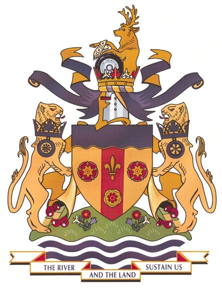 Coat of Arms of Windsor, Ontario See also Windsor, Ontario Coat of Arms.jpg A smaller 250x340 import from the City Of Windsor website into English Wikipedia (but not allowed to import to Wikimedia Commons).